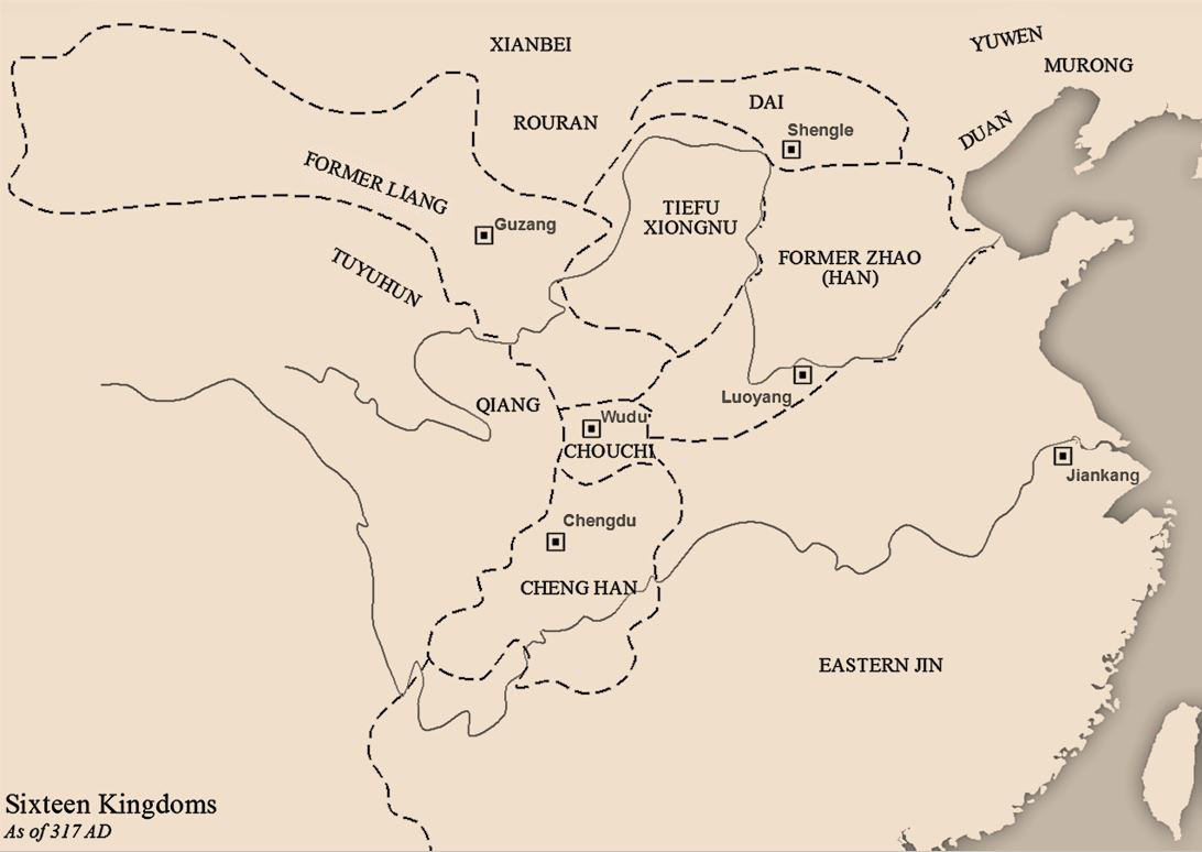 Map of Sixteen Kingdoms as of 317 AD